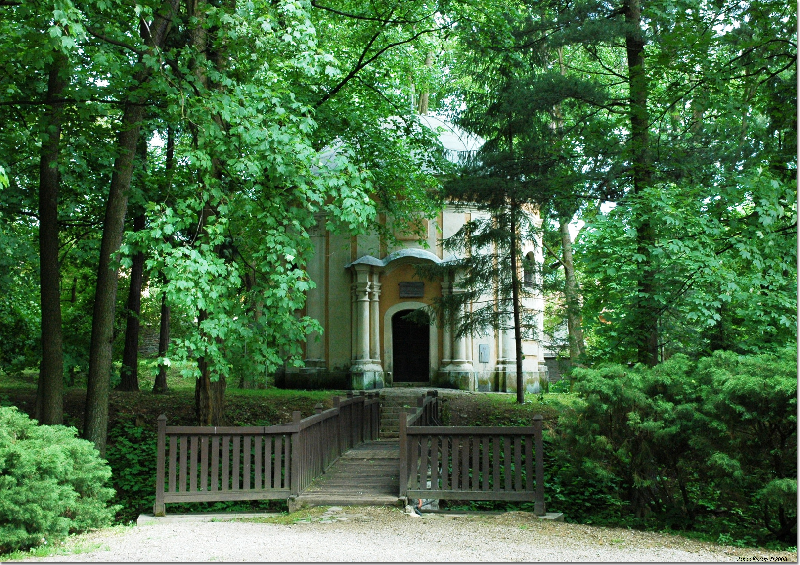 Slovakia, Betliar Castle, 2008